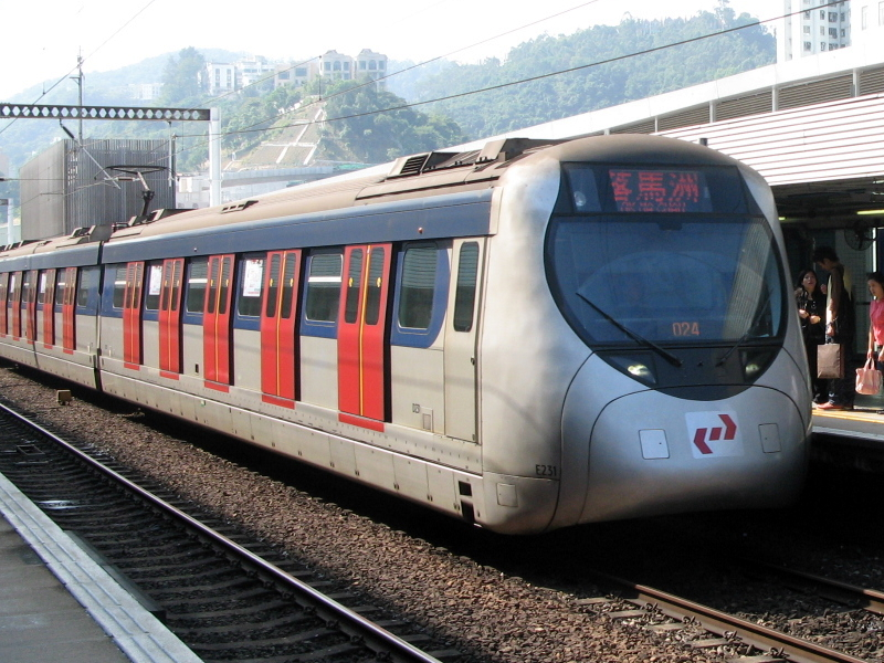 KCR East Rail SP1900